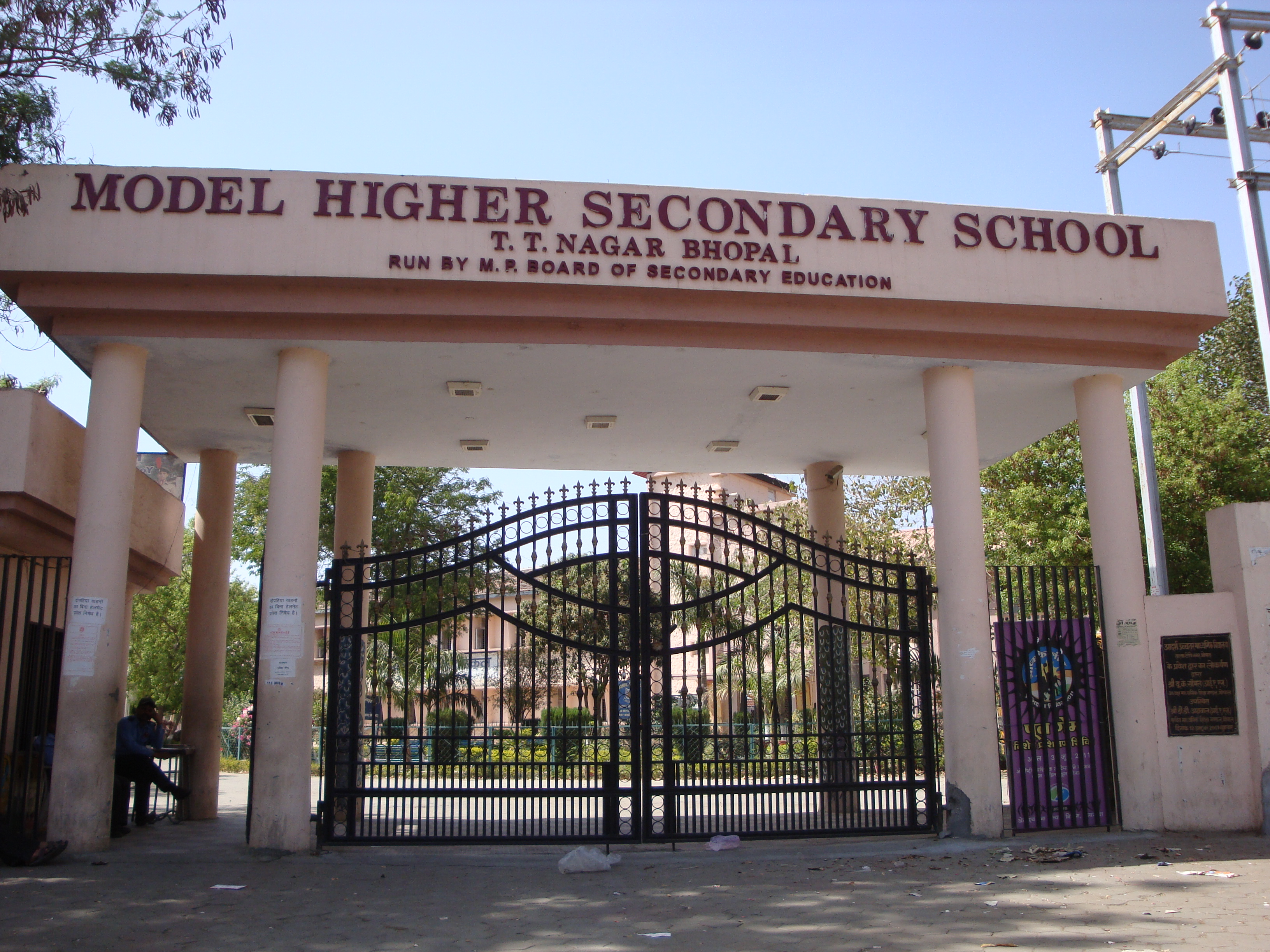 The gate of the Model Higher Secondary School, Tatya Tope Nagar, Bhopal, India